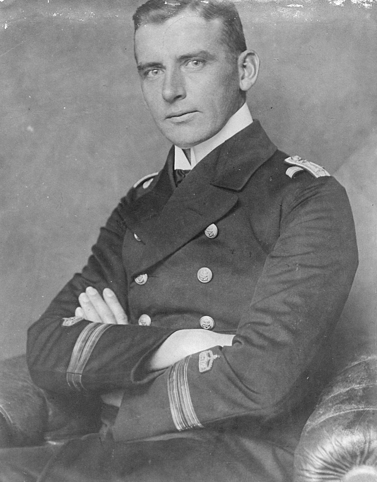 Hellmuth von Mücke (1916)